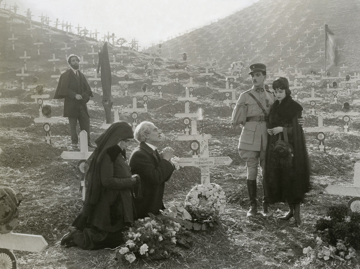 The final scene from the American film The Four Horsemen of the Apocalypse (1921).